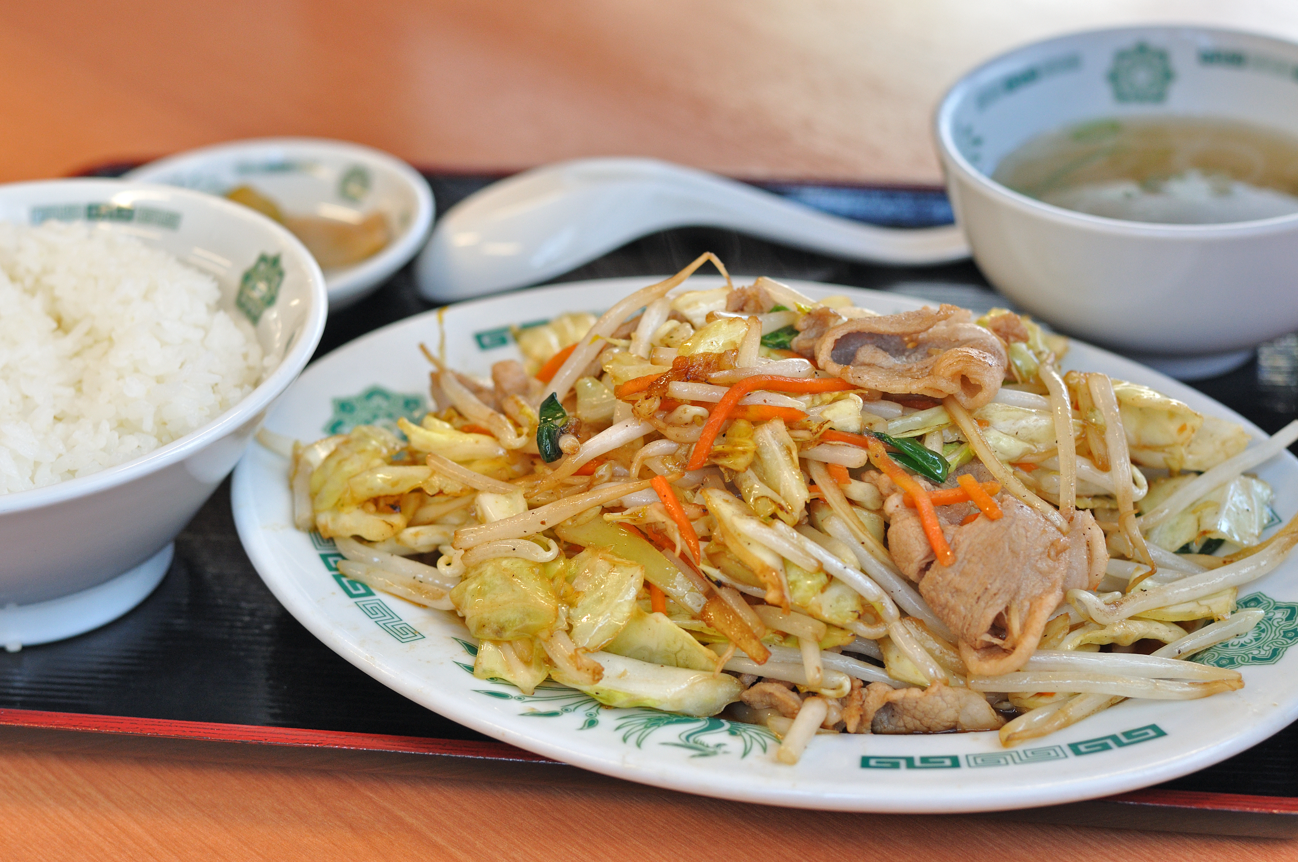 Typical example of Yasai-itame, or Yasai-itame set meal in Japan.